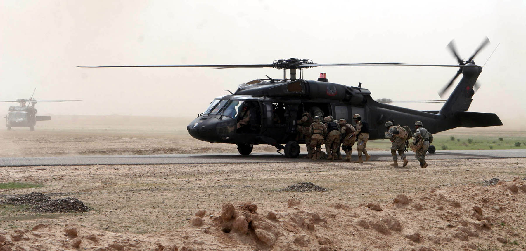 Blackhawk Air Assault - Iraqi Army Soldiers and U.S. troops from Company A, Third Battalion, 187th Infantry Regiment, Air Assault out of a 5th Battalion, 101st Combat Aviation Brigade UH-60 Blackhawk helicopter during Operation Swarmer March 16.